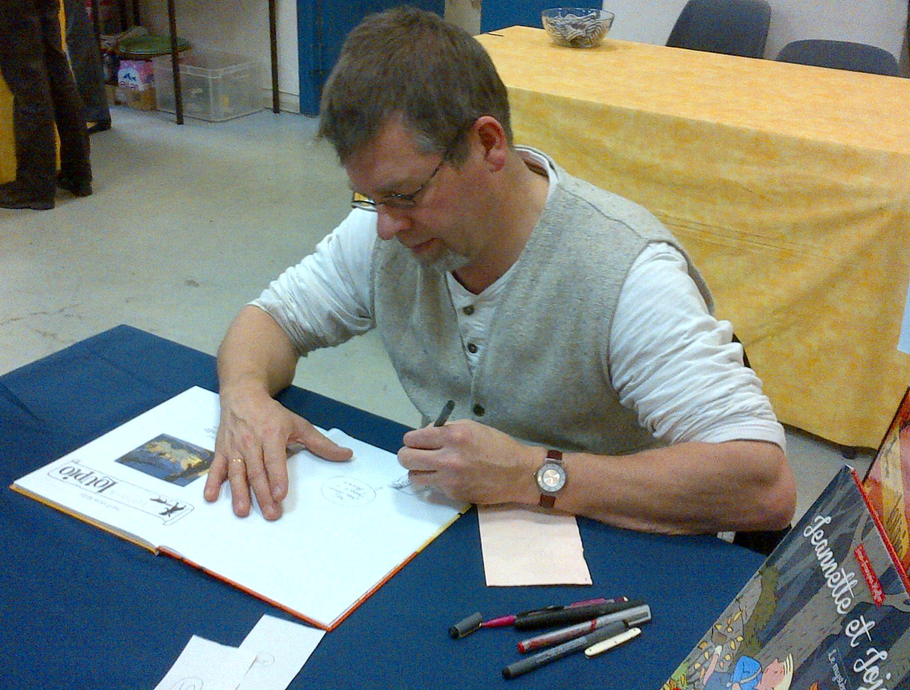 Jean-François Kieffer, b. 1975, French catholic deacon, comics drawer, dedicating a comics album : Loupio in 2012.